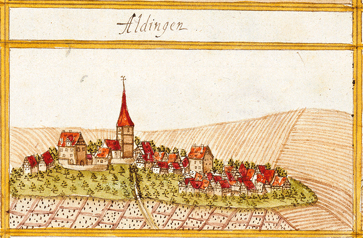 View of Aldingen am Neckar, Remseck am Neckar, from the forest register books created by Andreas Kieser